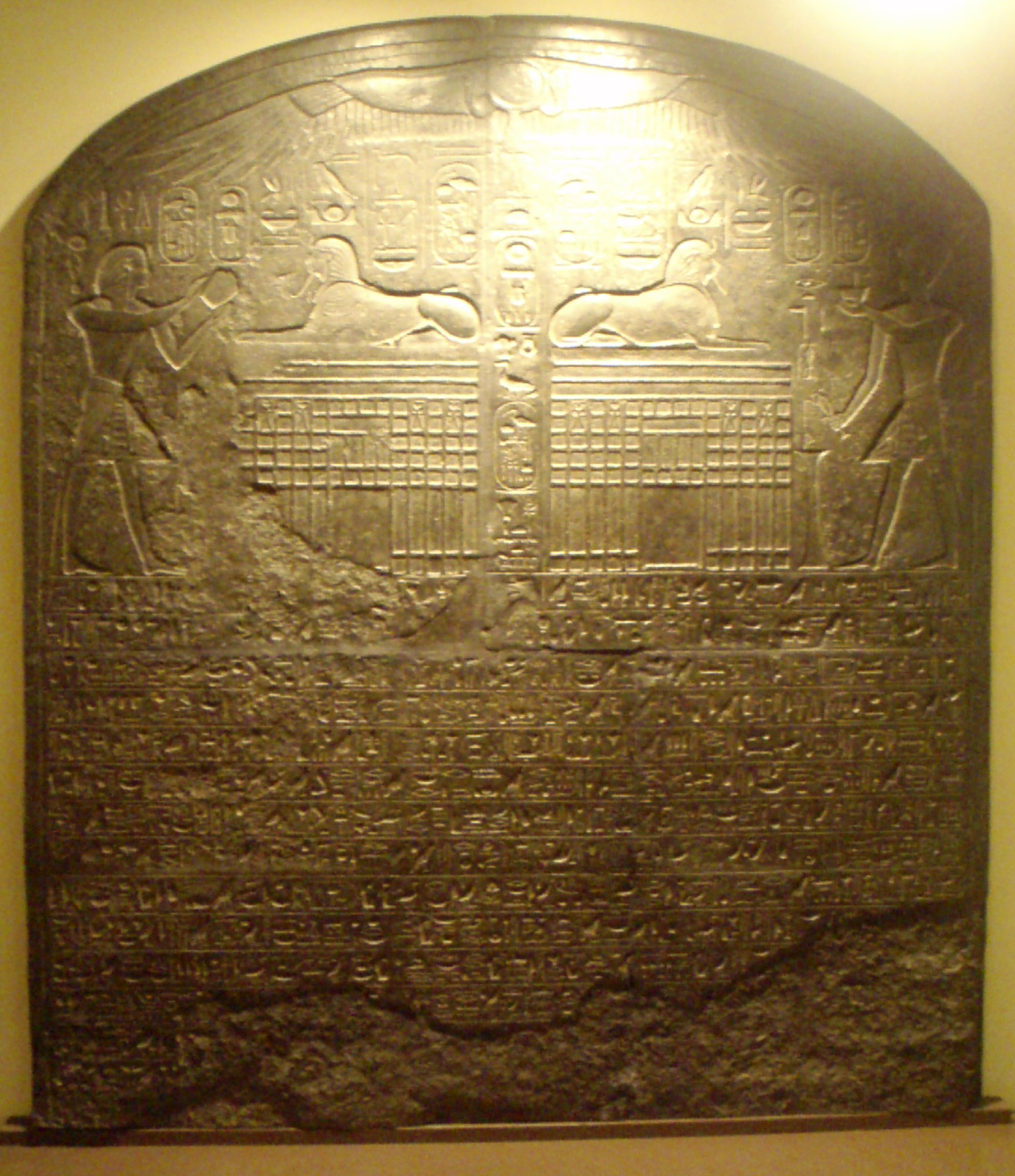 Reproduction of the Dream Stele of Thutmose IV. RC 1834 (Original 1500 - 1390 BC, made of granite, located on the Giza Plateau).